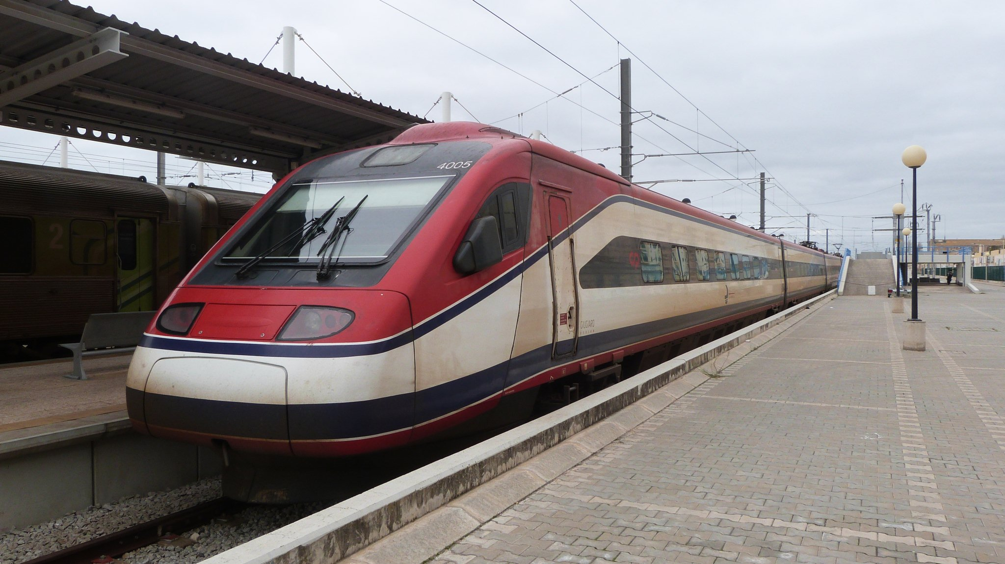 Alfa pendular train, CP's serie 4000, is the name of the Pendolino high-speed tilting train of the Portuguese state railway company CP. Travelling at speeds of up to 220 kilometres per hour the trains were assembled in Portugal by ADtranz.